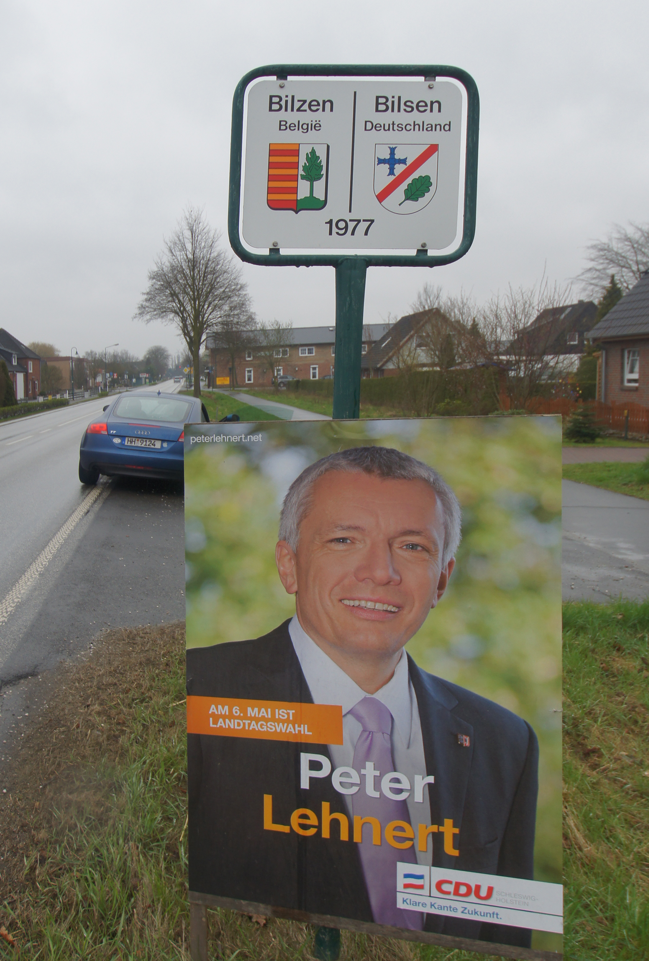 Bilsen, Germany: Sign about the friendship treaty with Bilzen